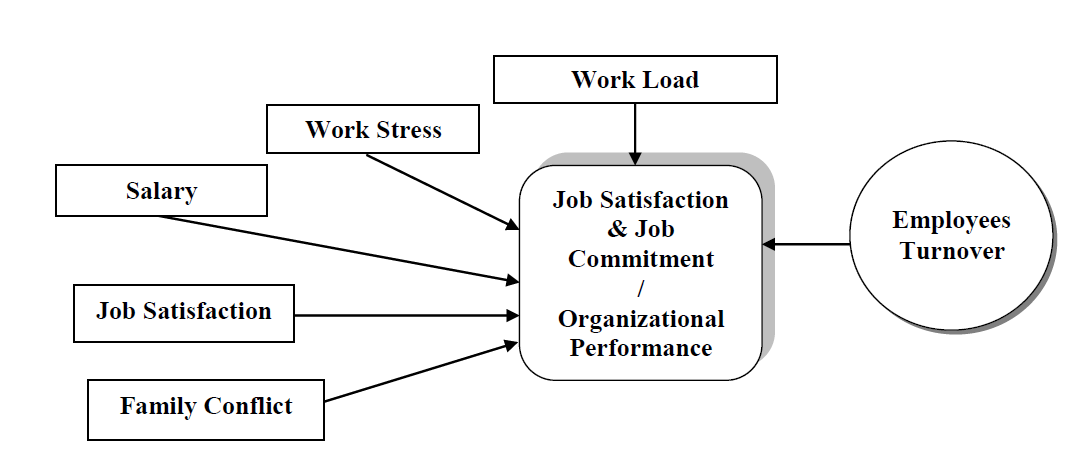 causes of employee turnover